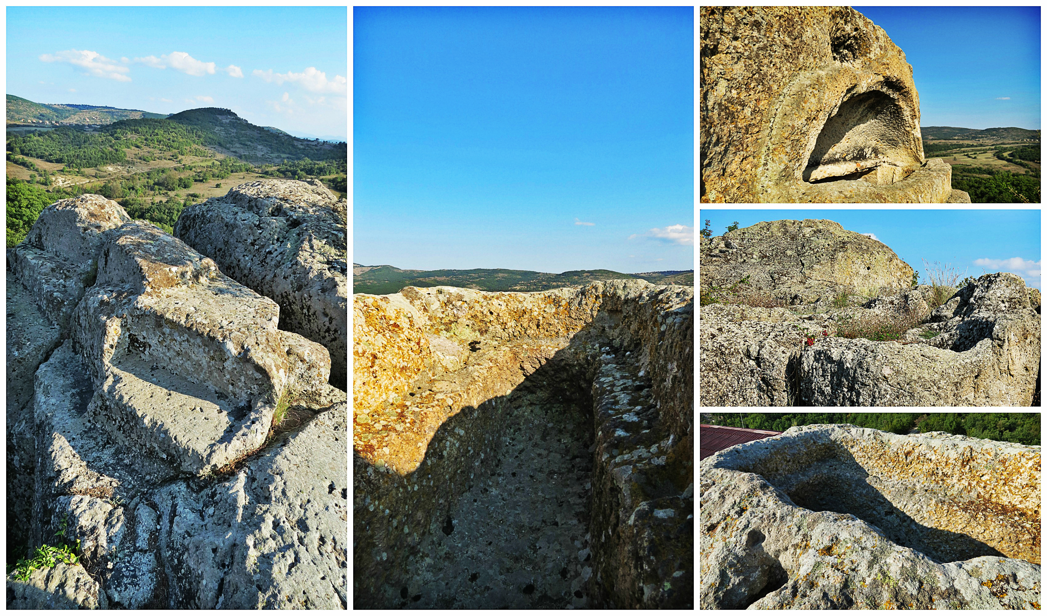 Tatul sanctuary 2 Bulgaria